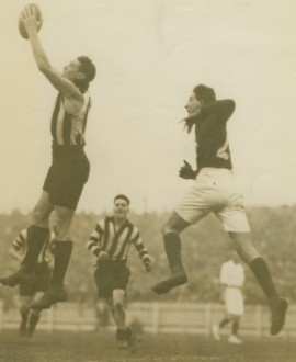 Photograph of George Clayden from 1924-1933